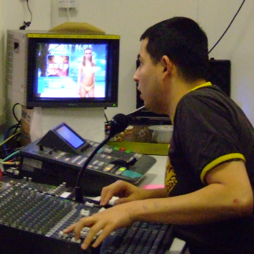 Gabriel Chavigny de Lachevrotiere, TelecomsTV studio, London, 7 Apr. 2006 author: Bart Markoff